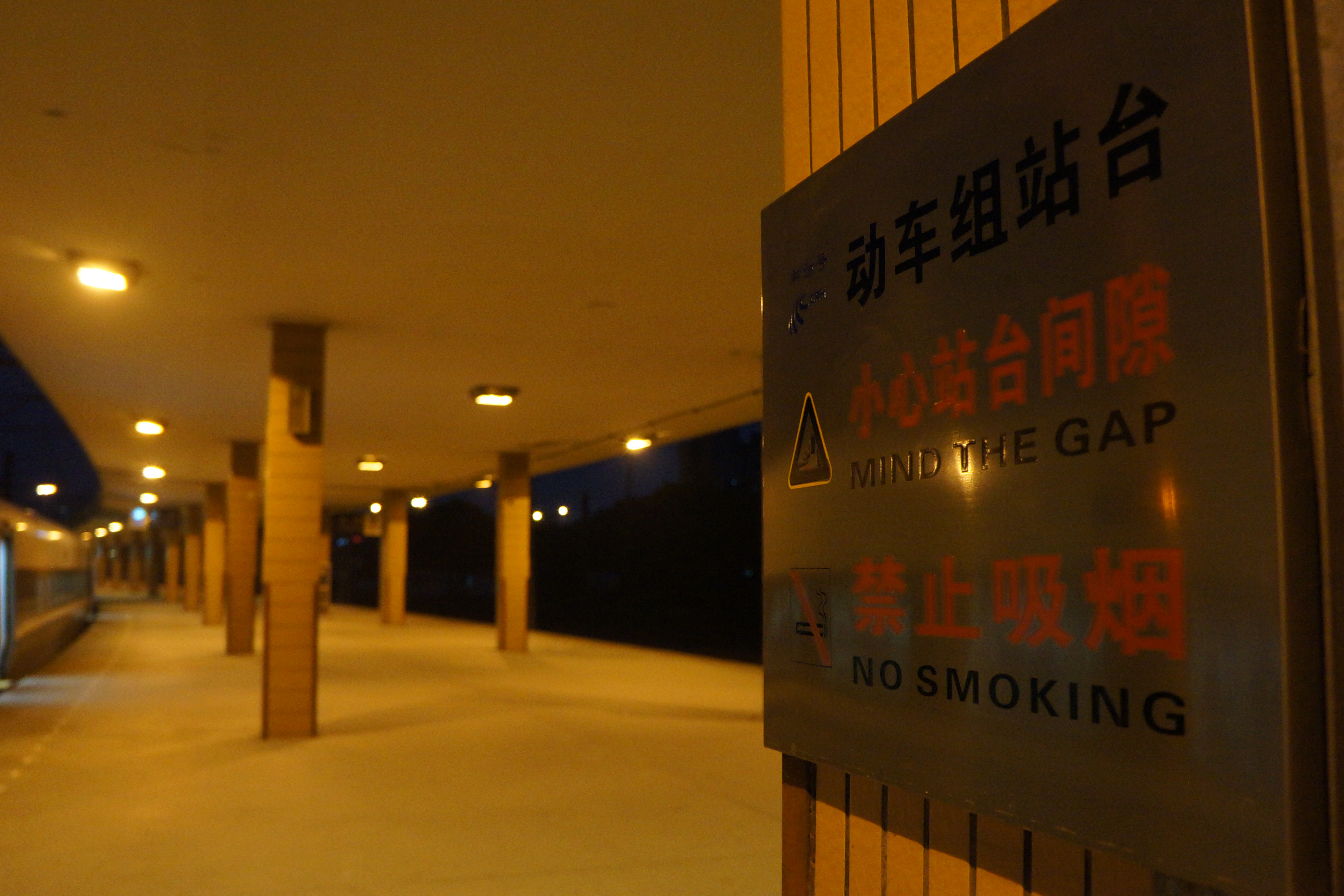 201607 Reminding Signs on Platform 8,9 (EMU Reserved Platform) of HZH